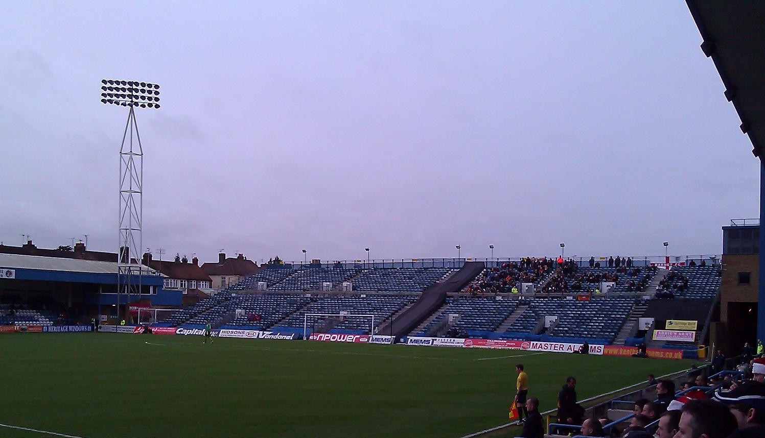 The Brian Moore Stand at Priestfield Stadium. I took this picture myself at the game between Gillingham F.C. and Barnet F.C. on 26 December 2012. Summary The Brian Moore Stand at Priestfield Stadium. I took this picture myself at the game between Gillingham F.C. and Barnet F.C. on 26 December 2012.